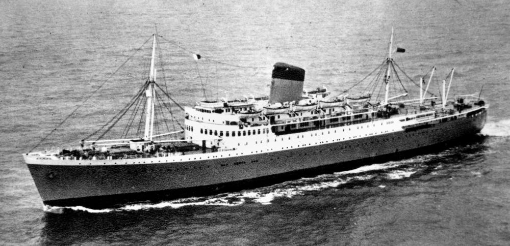 The 17,041 GRT Union-Castle passenger turbine steamship Kenya Castle, built by Harland and Wolff in Belfast in 1951. Union-Castle sold her in 1967 or '68 to Chandris Line, who renamed her Amerikanis. She was laid up from 1996 and scrapped in India in 2000 or '01.